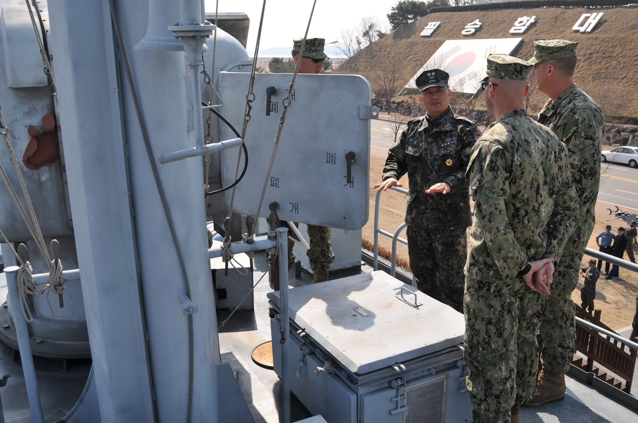 PYEONGTAEK, Republic of Korea (March 15, 2012) - Republic of Korea (ROK) Cmdr. Yoo Nak-kyun, commander of Special Salvage Unit, describes the sinking and salvage of ROK Chamsuri class patrol craft (PKM 357) while aboard the recovered vessel with U.S. Navy Underwater Construction Team (UCT) 2 at Pyeongtaek. UCT 2 worked alongside ROK's Special Salvage Unit during four days of scuba, underwater cutting and welding, harbor clearance and inspection operations as part of exercise Foal Eagle 2012. (U.S. Navy photo by Mass Communication Specialist 1st Class Travis Simmons)